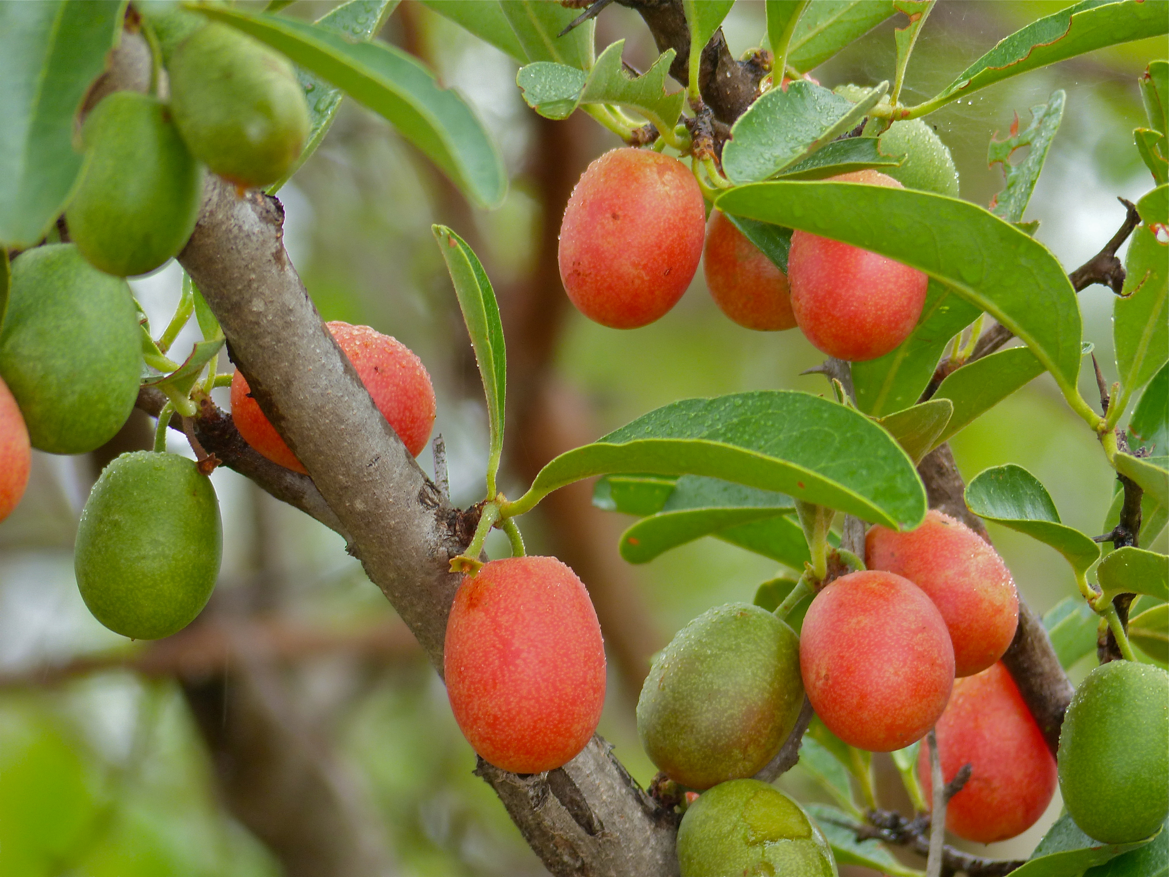 S58 Road East of Punda Maria, Kruger NP, SOUTH AFRICA